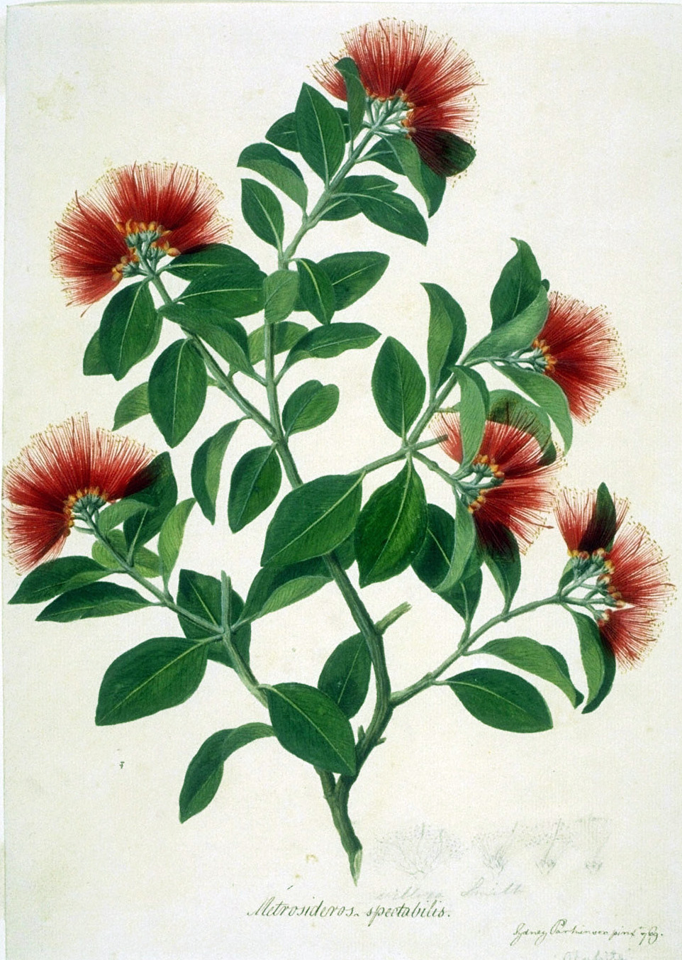 Metrosideros collina, collected at Tahiti during Sir James Cook's first Pacific voyage on the Endeavour, 1768-1771. Watercolours on Paper.